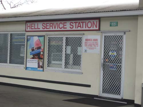 The Fuel Station next to Hell, Grand Cayman